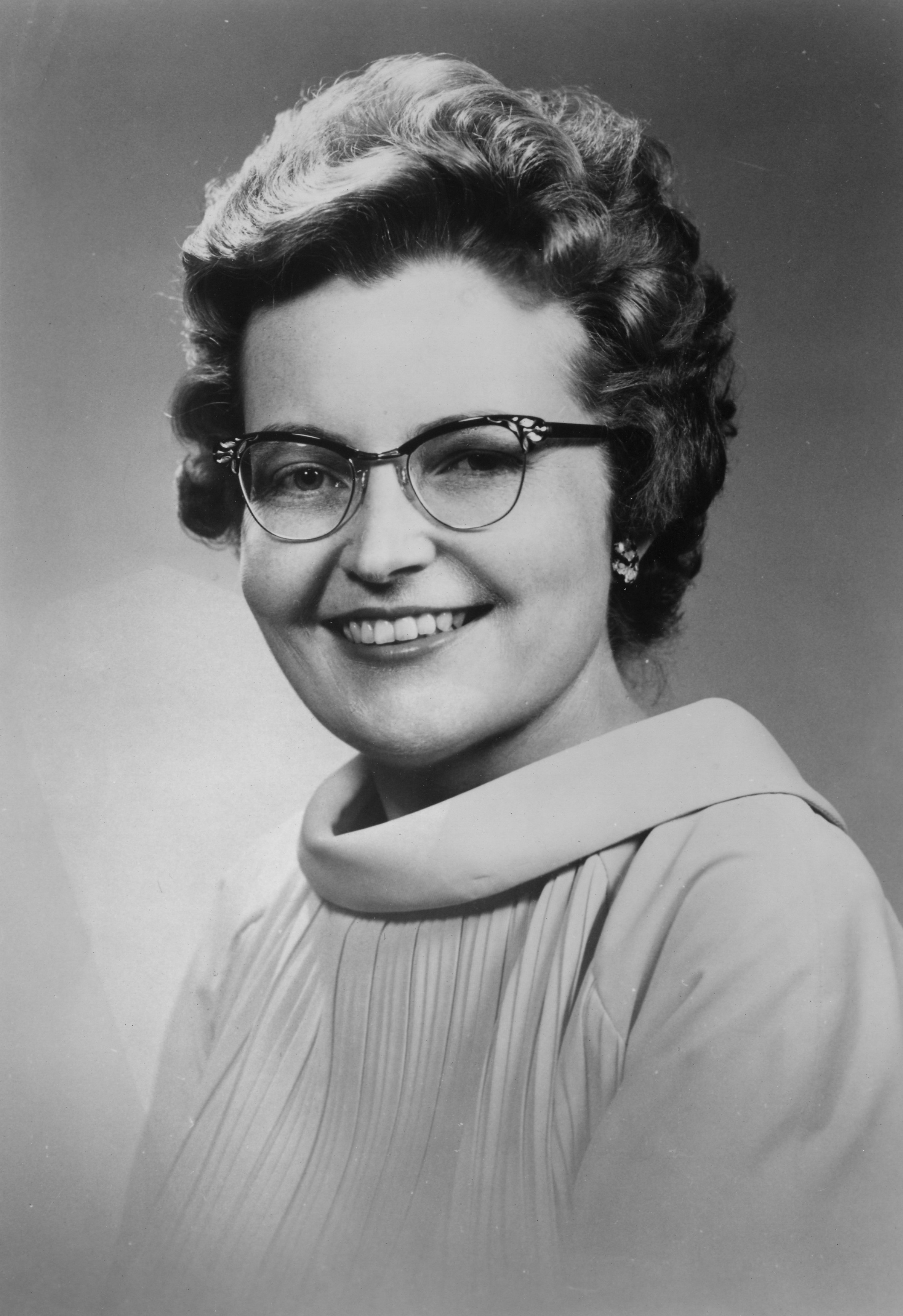 Description: In 1963, when this photograph was taken, Patricia Brown (b. 1928) was a chemical engineer working at Texas Instruments and had just been elected president of the Society of Women Engineers. Creator/Photographer: Unidentified photographer Medium: Black and white photographic print Date: 1963 Persistent URL: Repository: Smithsonian Institution Archives Collection: Accession 90-105: Science Service Records, 1920s – 1970s - Science Service, now the Society for Science & the Public, was a news organization founded in 1921 to promote the dissemination of scientific and technical information. Although initially intended as a news service, Science Service produced an extensive array of news features, radio programs, motion pictures, phonograph records, and demonstration kits and it also engaged in various educational, translation, and research activities. Accession number: SIA2007-0425